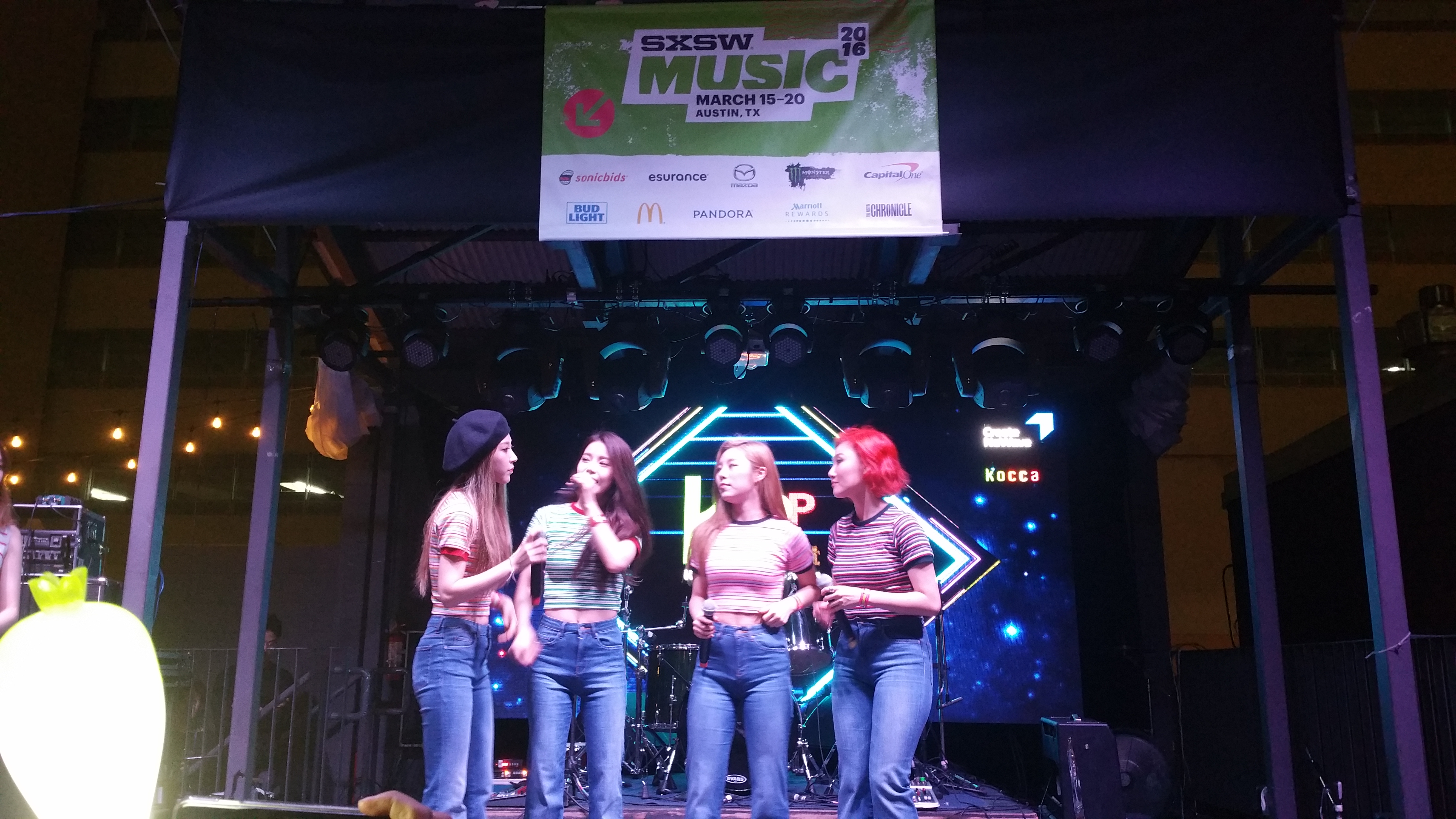 KPNO SXSW 2016, The Belmont, Austin, Texas, (Mamamoo).